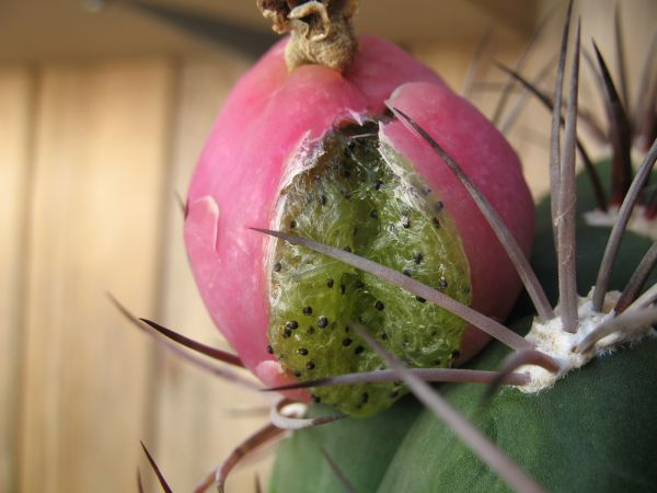 Ripe Gymnocalycium saglionis cactus fruit cracking open.